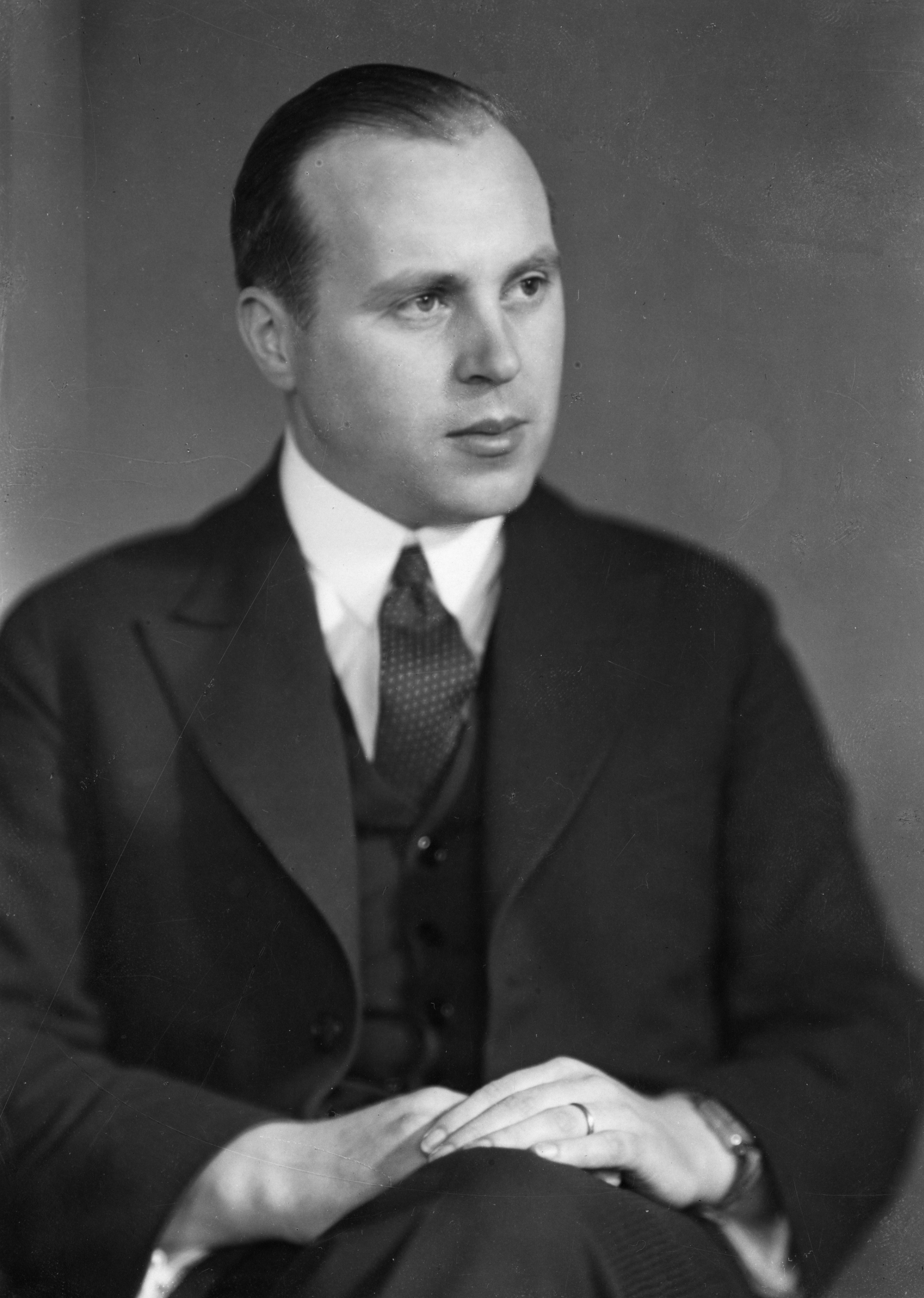 Photograph of the Finnish shipowner Birger Krogius (1901–1997).